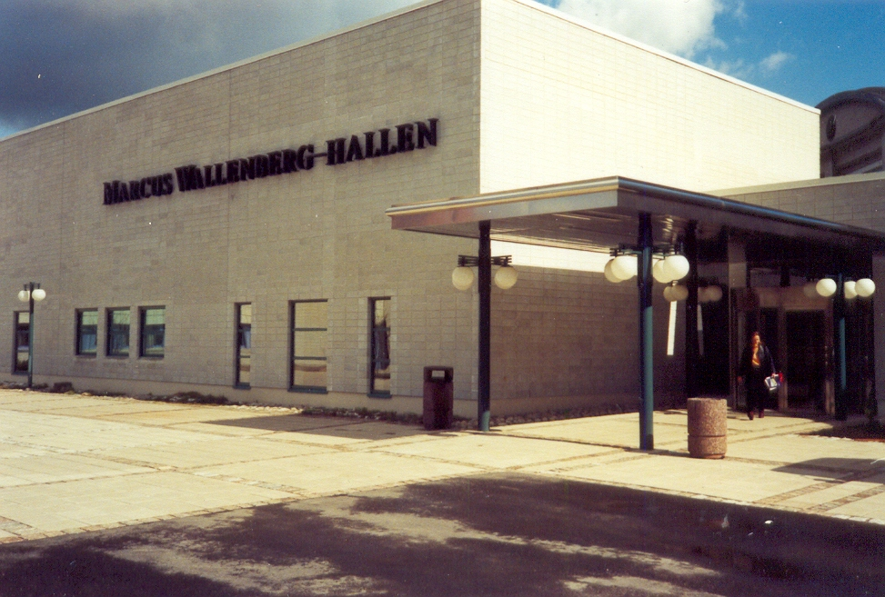 Photographer: User:Ballista This is the Scania Museum, in Sweden